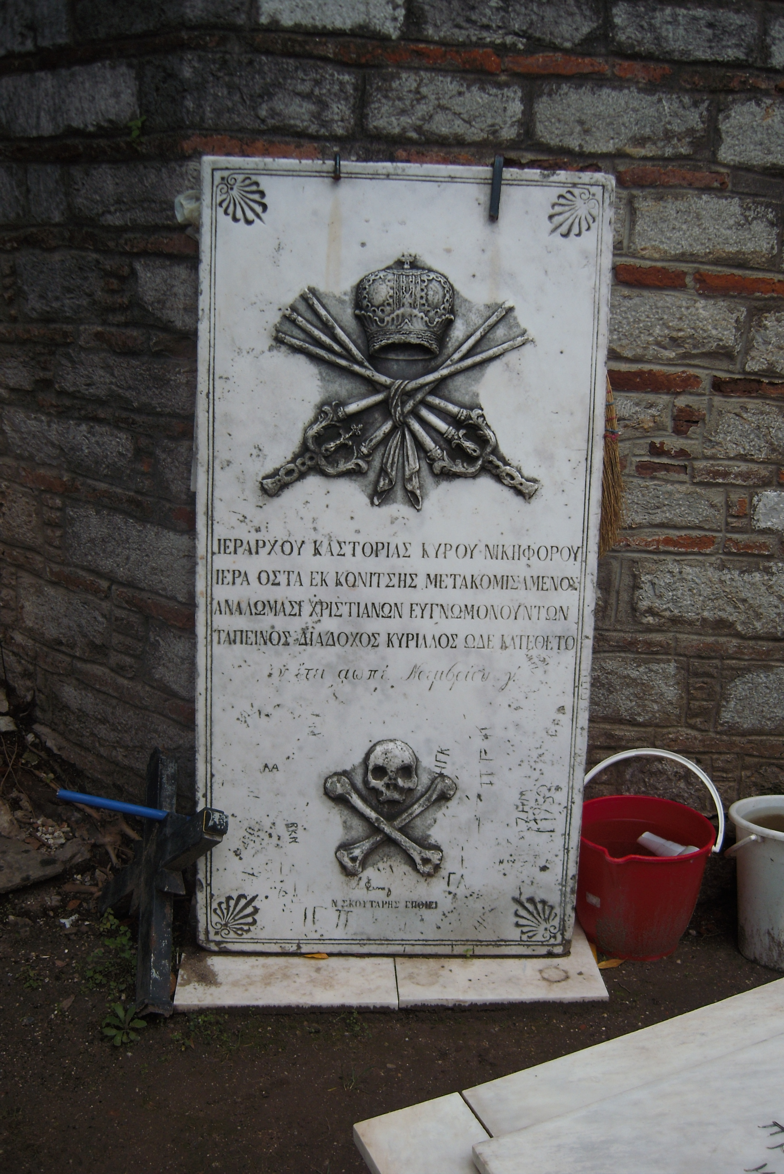 Nikiforos I of Kastoria Stone in Kastoria Mitropoly Yard 2013